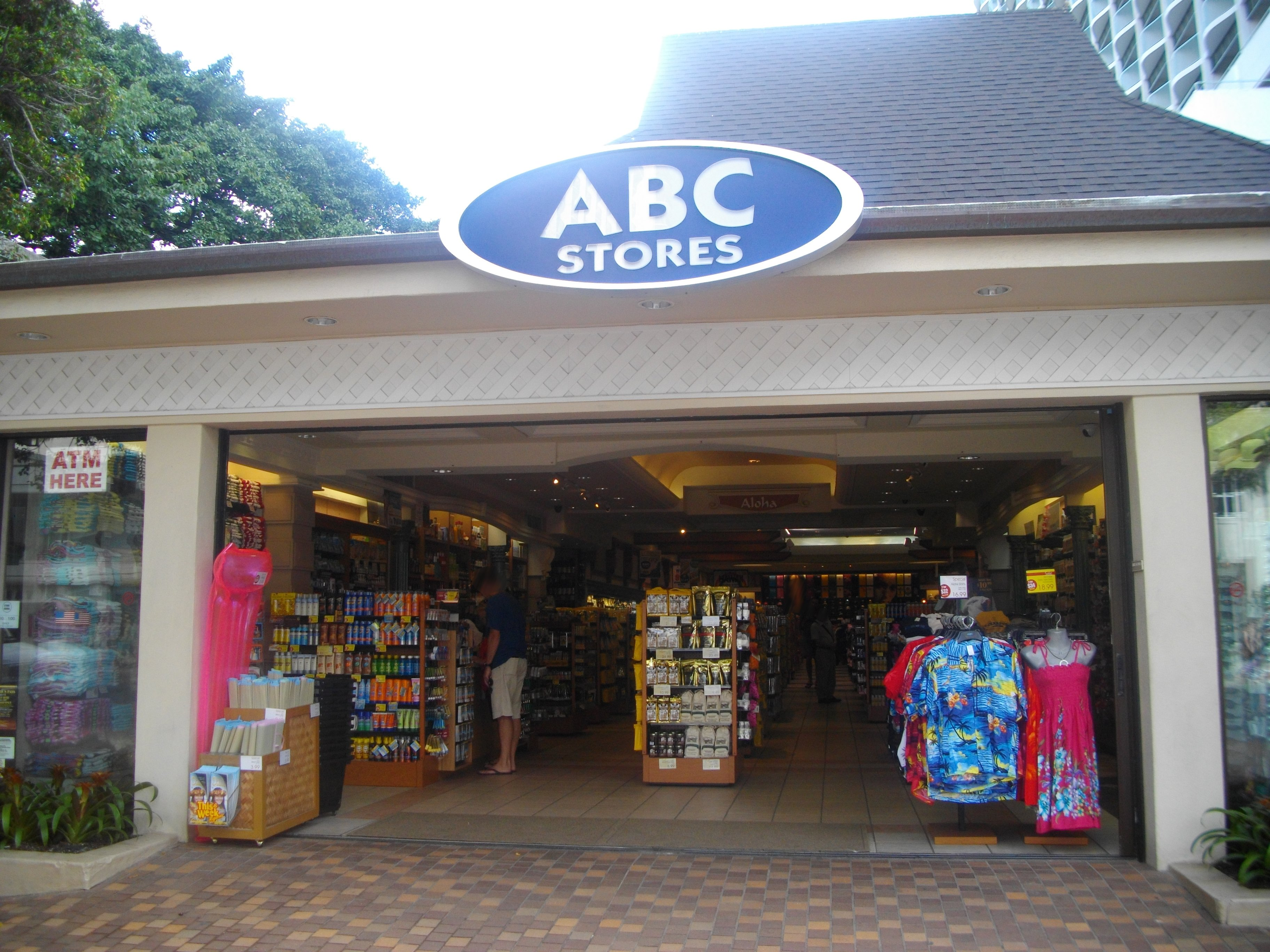 A photo of ABC stores(a convenience store in Honolulu),Honolulu,Hawaii,USA.